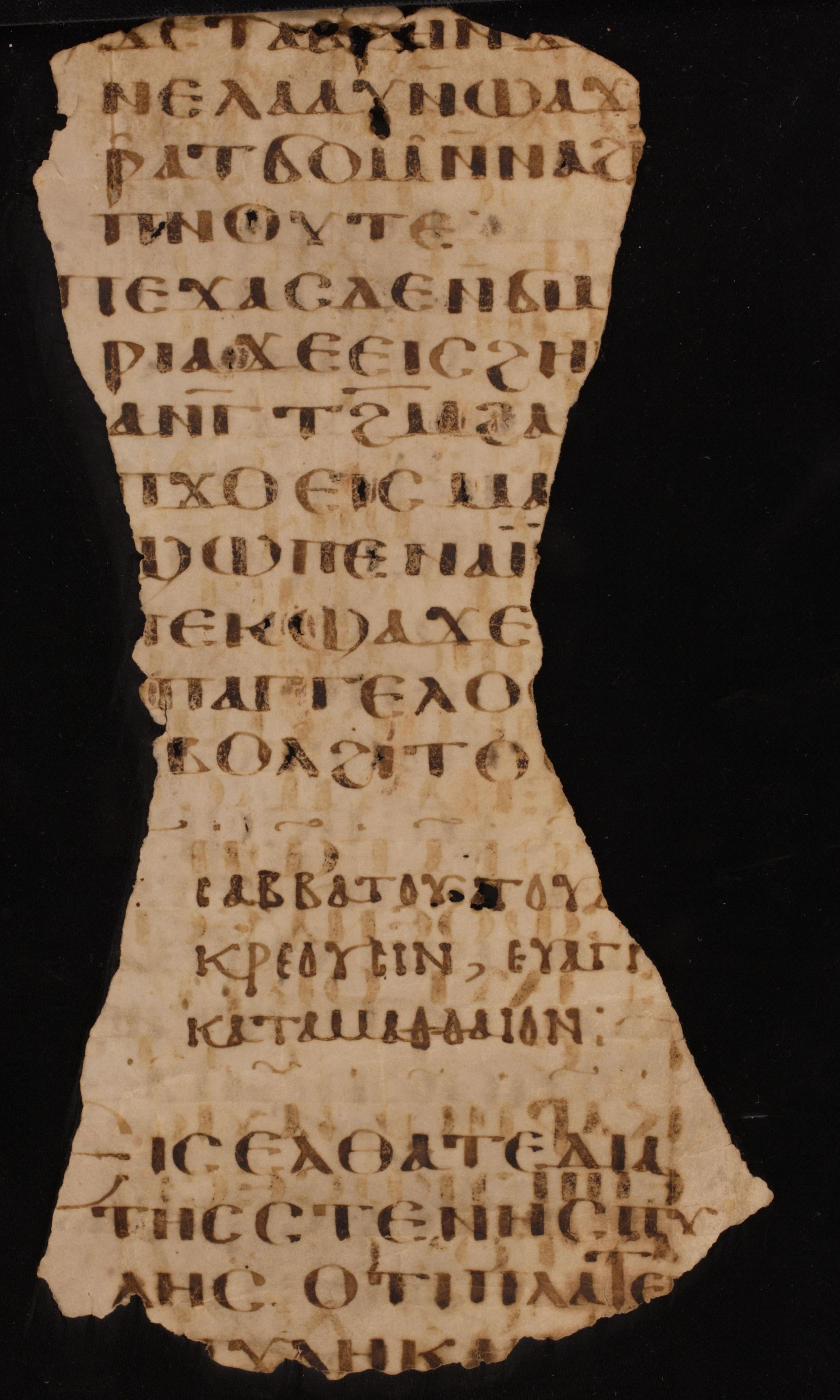 the leaf of the codex with Coptic text